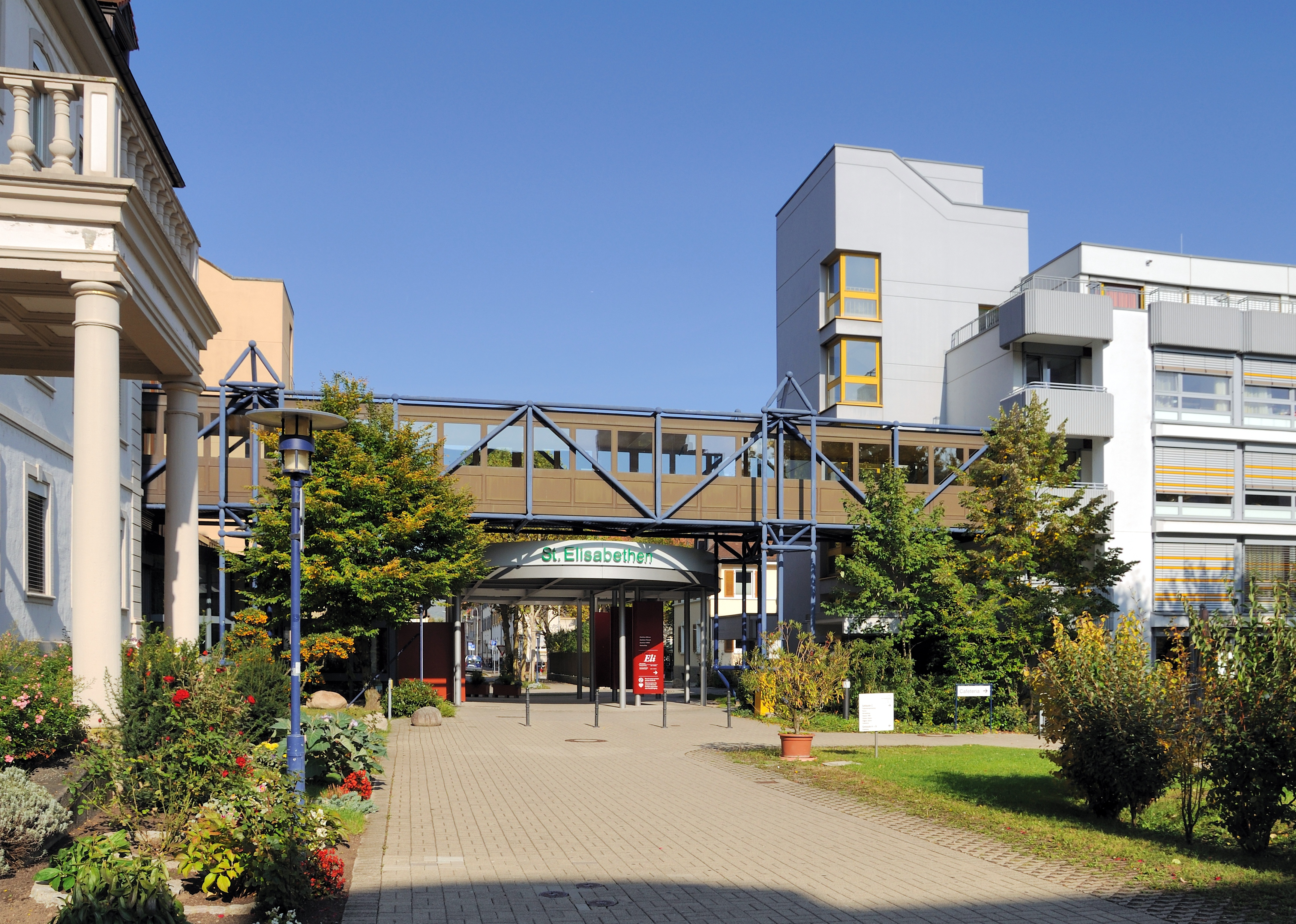 Lörrach: Saint Elisabeth Hospital